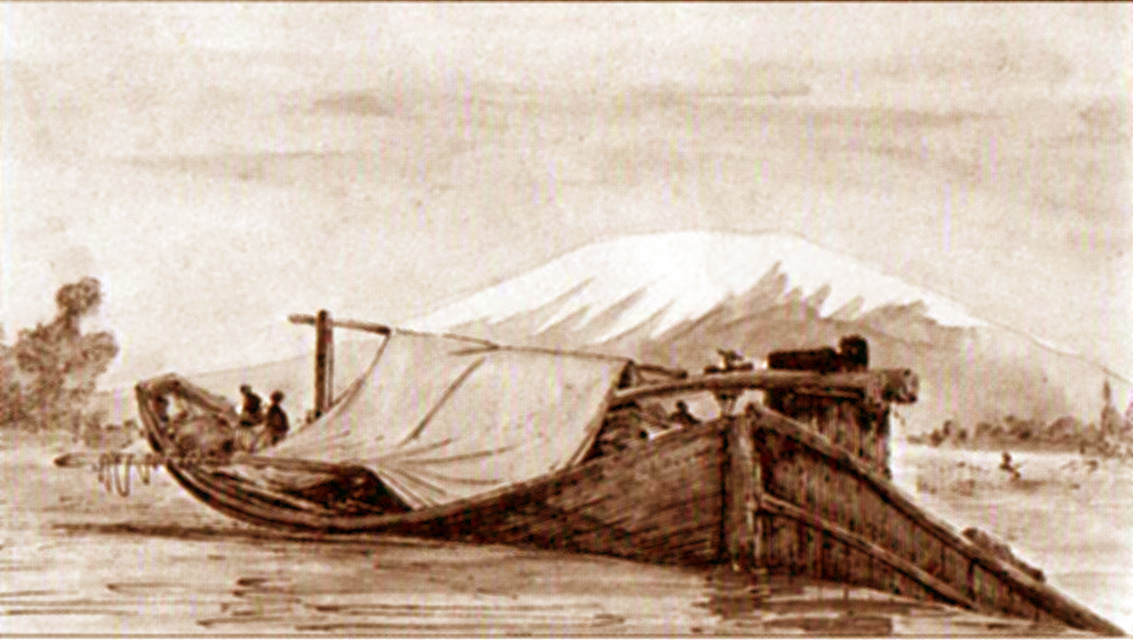 Boat upon the Rhone XIXe